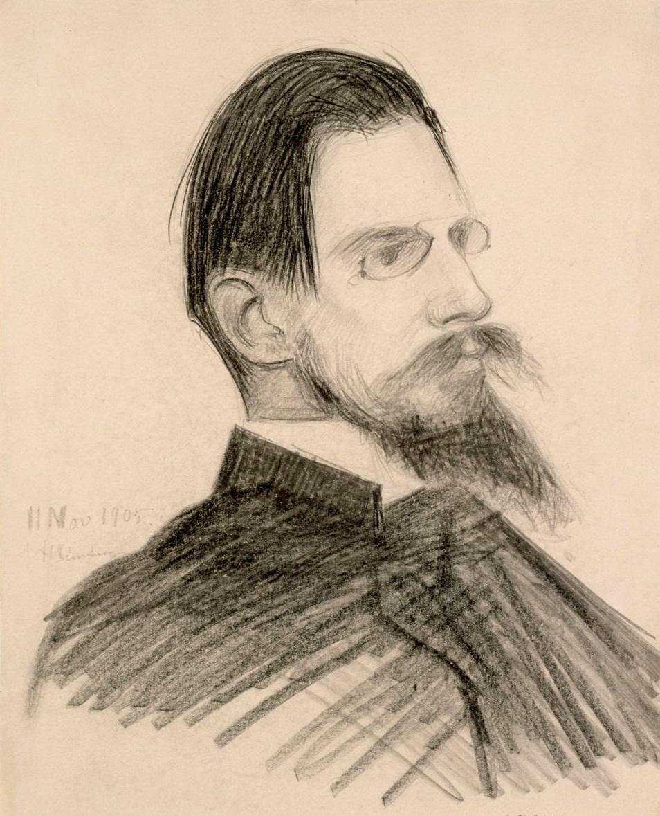 This drawing was made by Finnish artist Hugo Simberg, most probably in Paris. The drawing is part of the estate of Henrik Otto Donner.